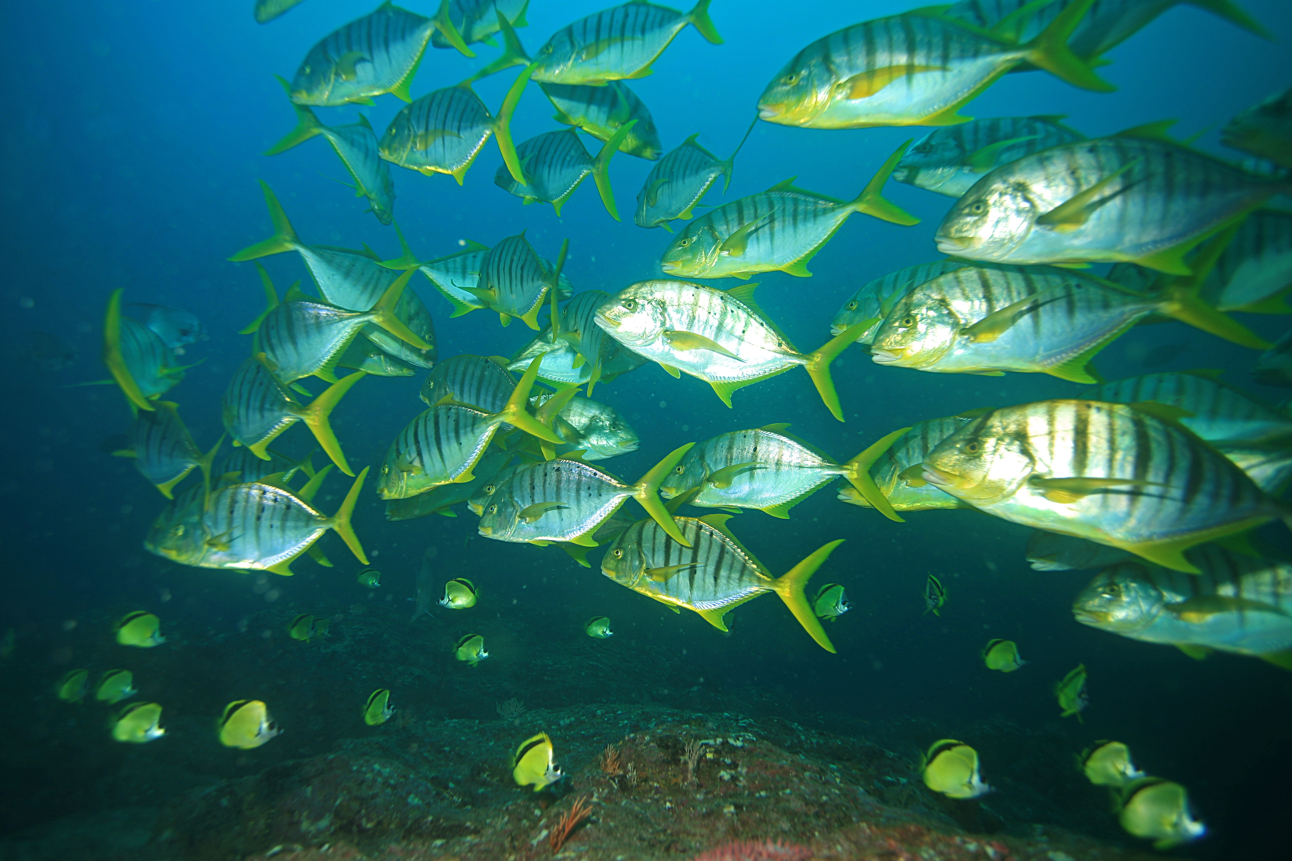 Golden Crevalle (Gnathanodon speciosus) pass over a school of Barberfish (Johnrandallia nigrirostris) at "Czech Point" dive site in Coiba National Park, Panama